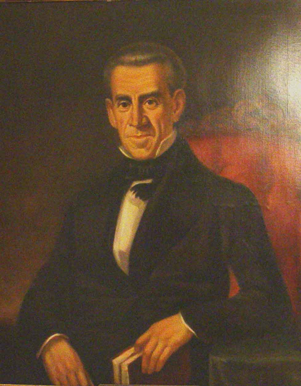 Taken from - due to its age it's in the public domain